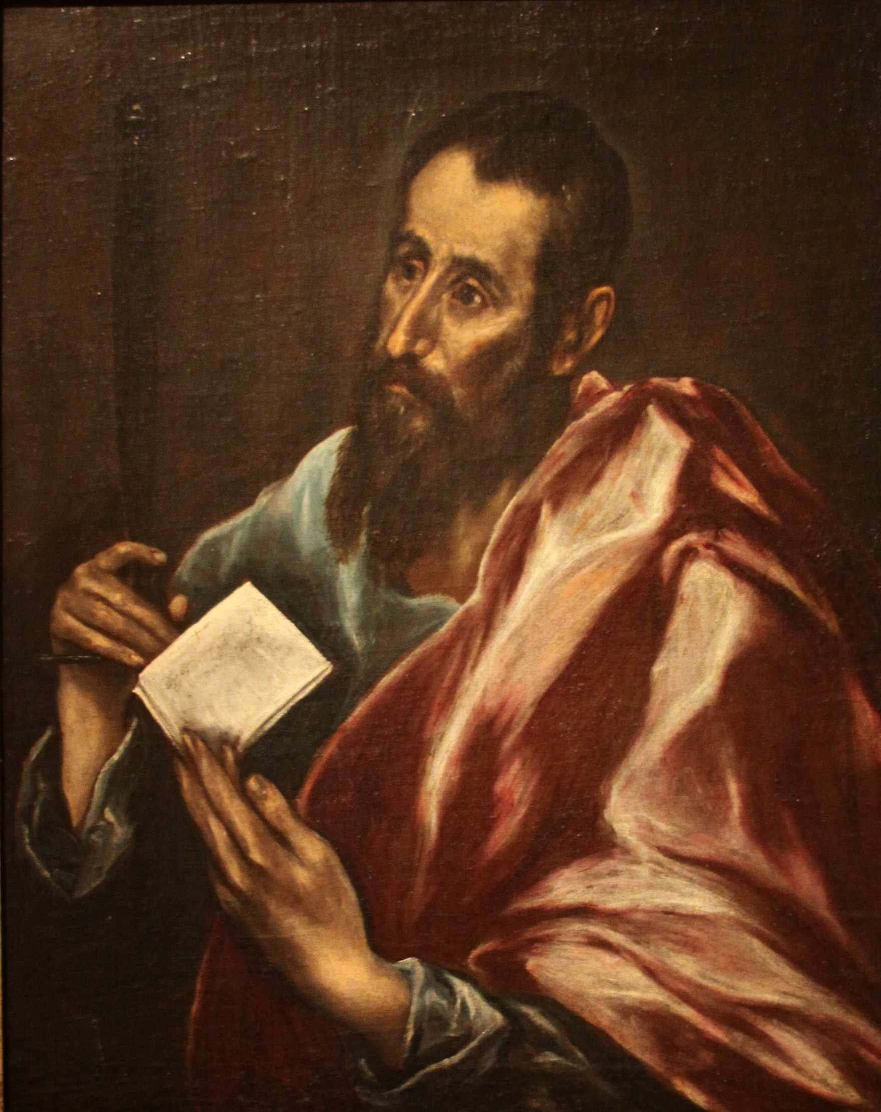 Saint Paul